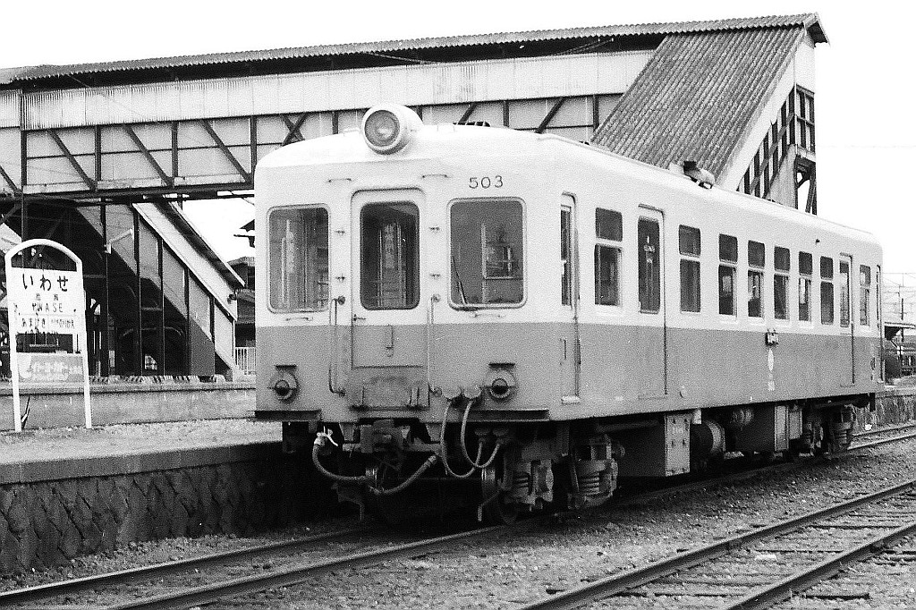 Kiha 503 of Tsukuba Reilway at Iwase Sta. Ibaraki Pref.